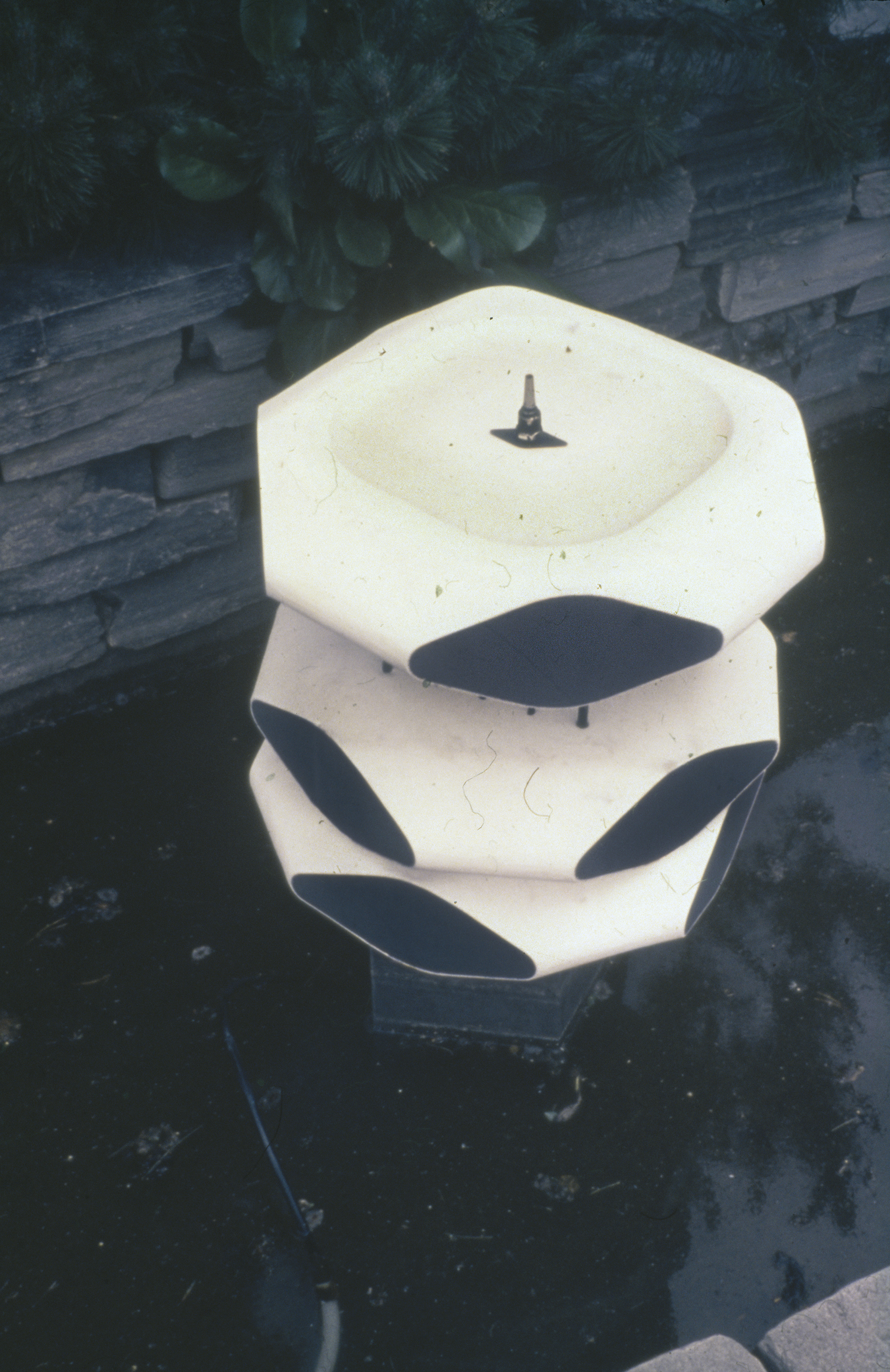 Siri Aurdal FLYTENDE PUNKT. Marble fountain 1967. Photo: Siri Aurdal